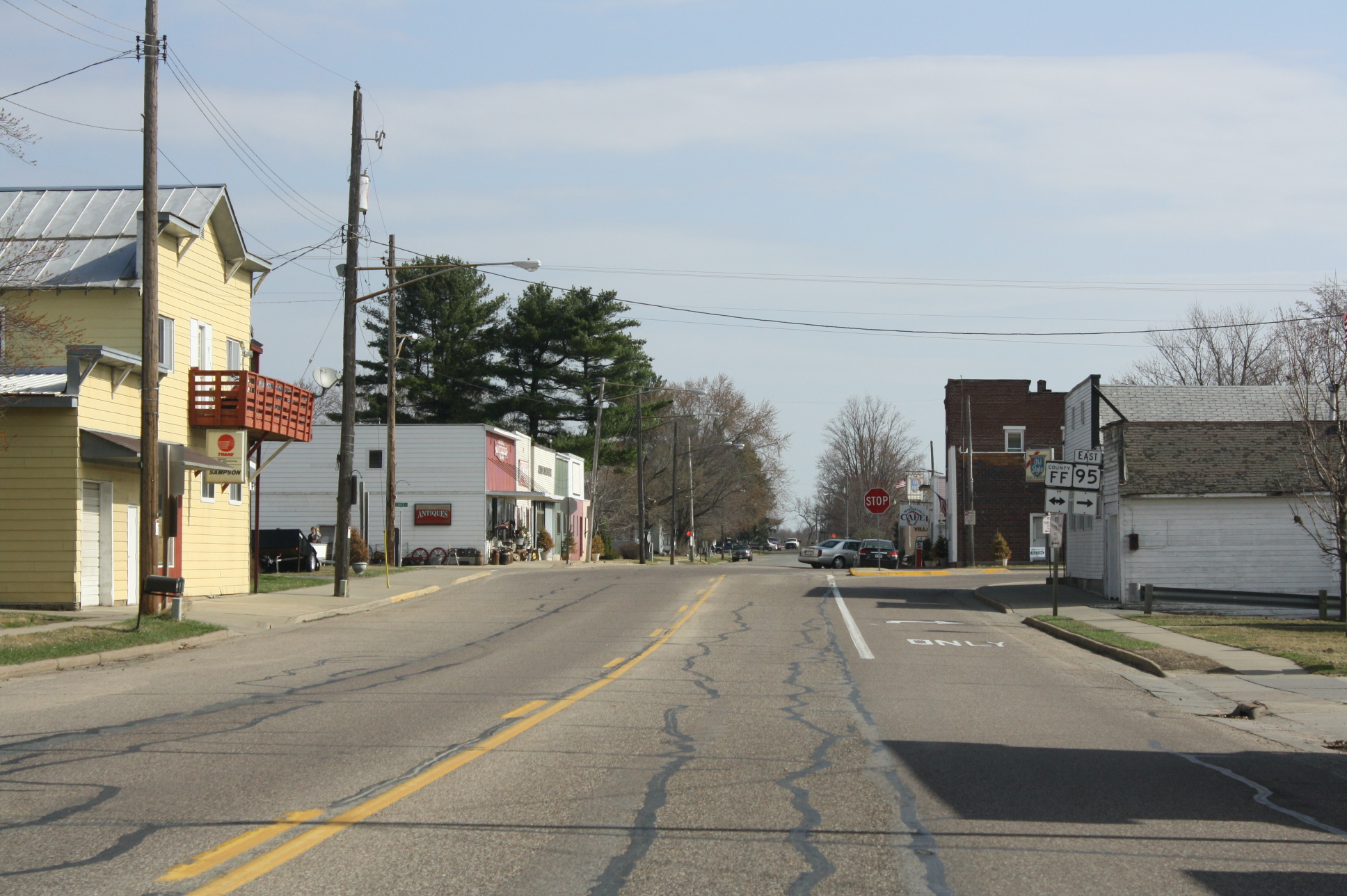 Looking northeast in downtown Hixton, Wisconsin along Wisconsin Highway 95.